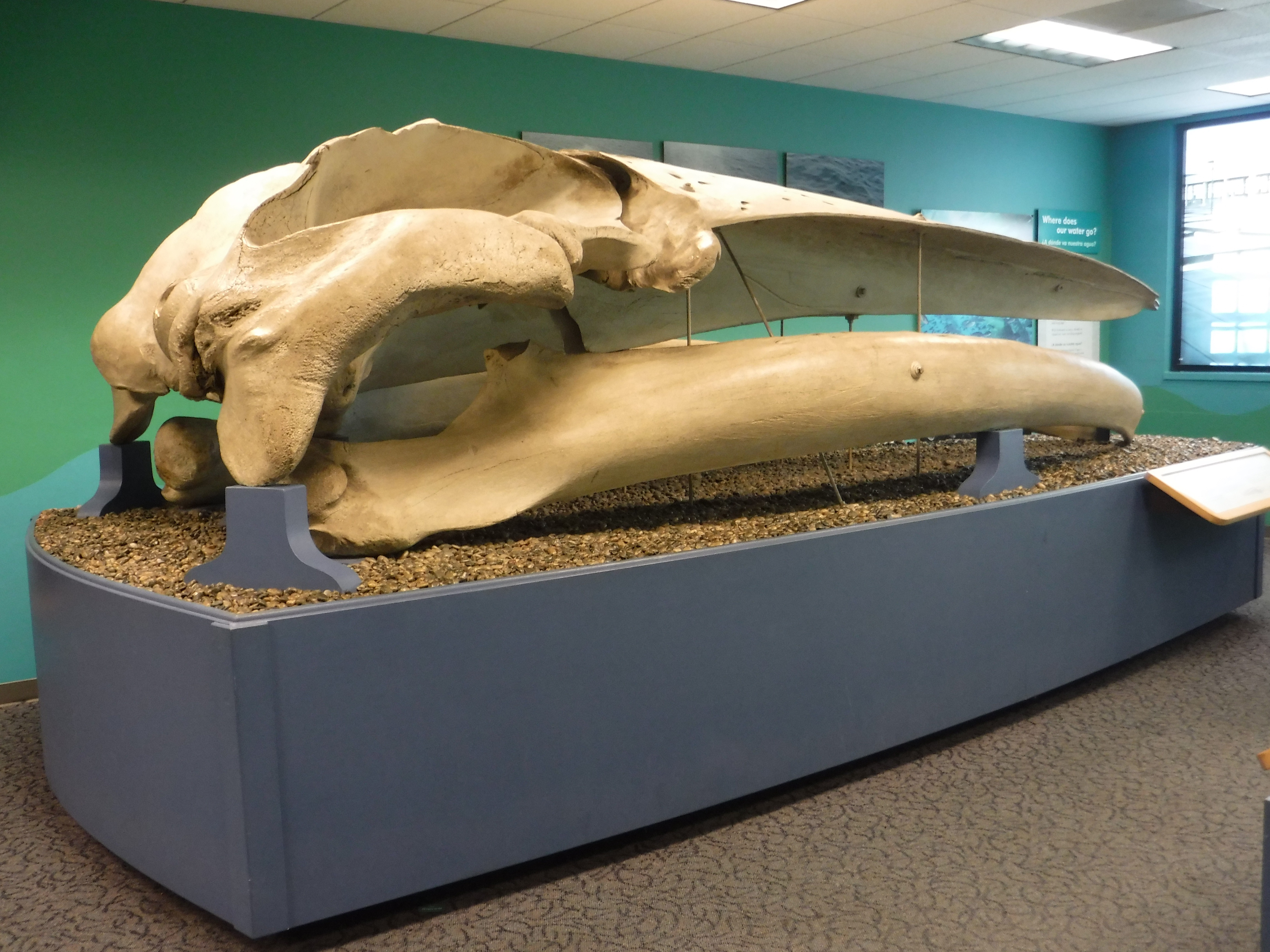 Finback Whale Skull, at the San Diego Natural History Museum, Balboa Park, San Diego, CA, USA.